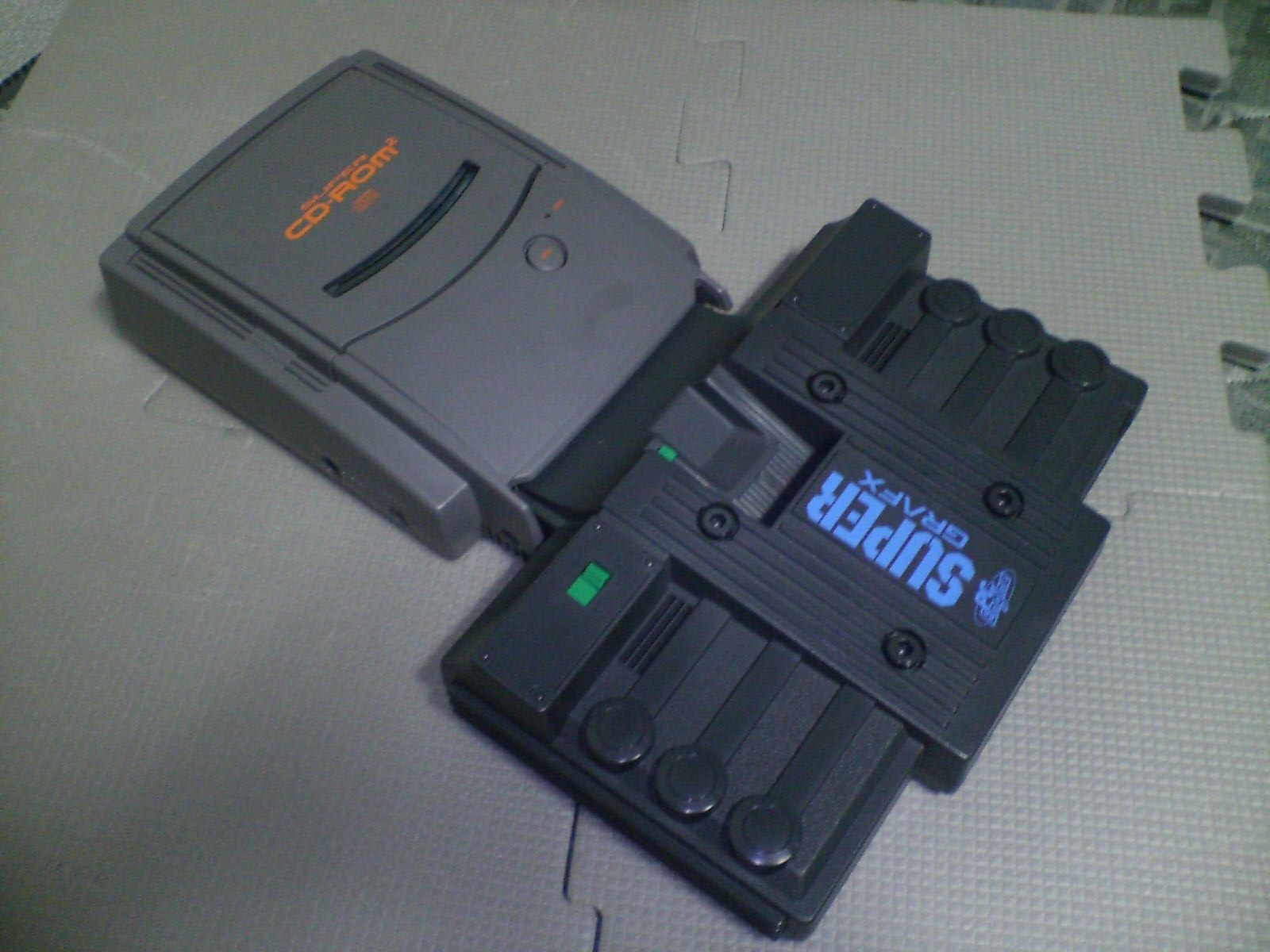 PC Engine Super Grafx (attached Super CD-ROM2)